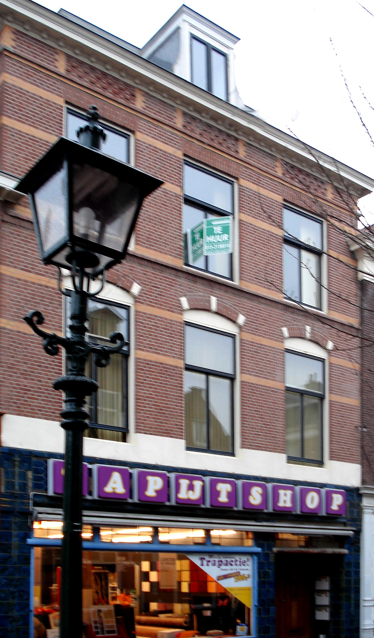 The master forger Van Meegeren lived here when he studied architecture in Delft 1907 - 1912 Choorstraat 51. Shop in 2007, flats above